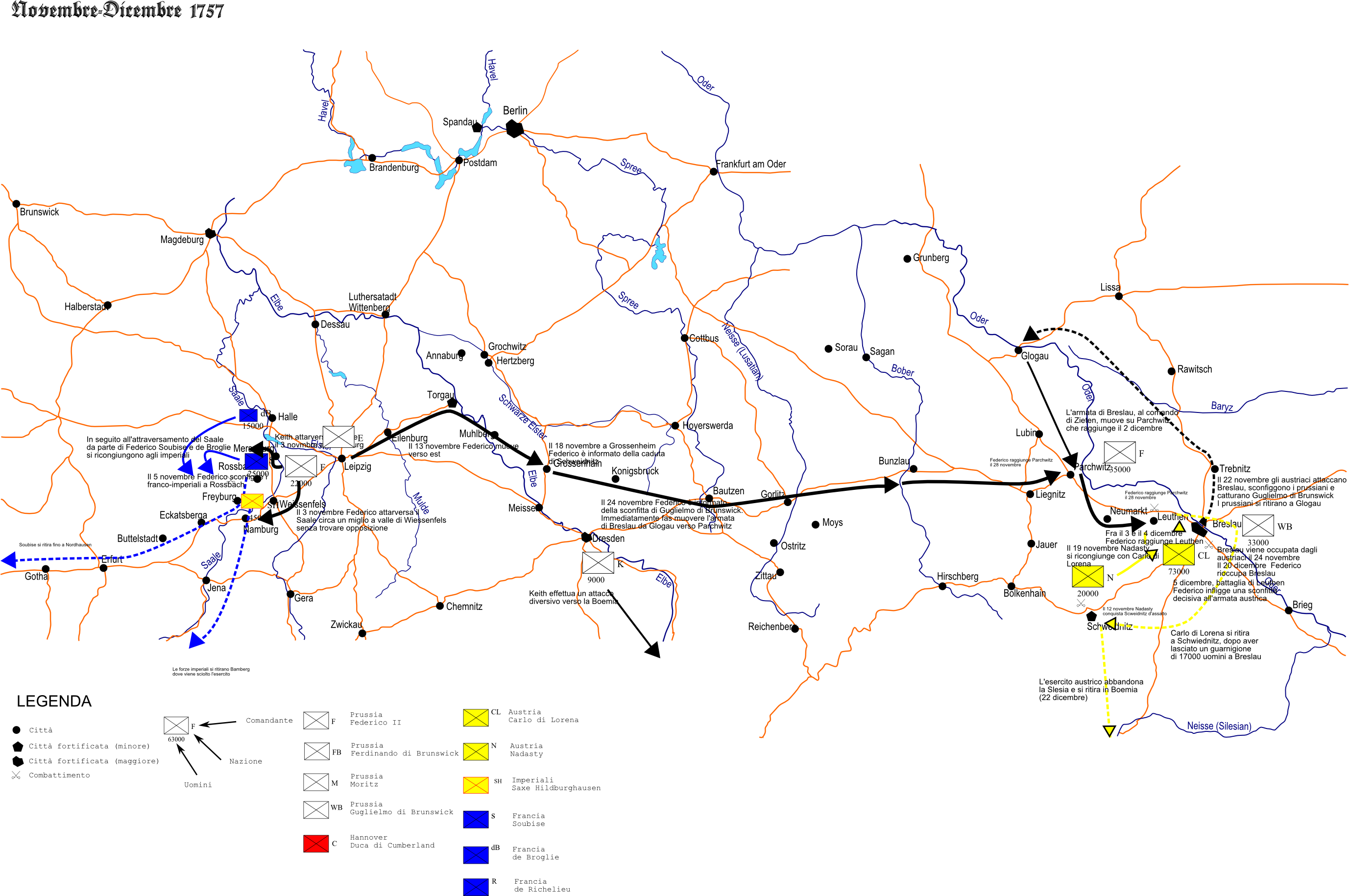 Campagin of 1757 in the Seven Years War, November and December operations